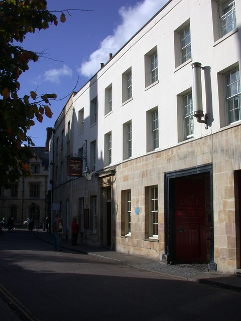 The Eagle, Bene't Street An old coaching inn, famed in Cambridge folk-lore as the venue in which Crick & Watson celebrated their discovery of the structure of DNA. The blue plaque commemorates this event. The pub supports a wall-mounted Richardson Candle street light, designed to illuminate the building as well as the street.